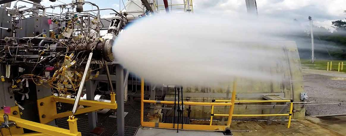 Operators at the E-2 Test Stand at Stennis conduct a test of the oxygen preburner component being developed by SpaceX for its Raptor rocket engine, which is being built to power flights to Mars.